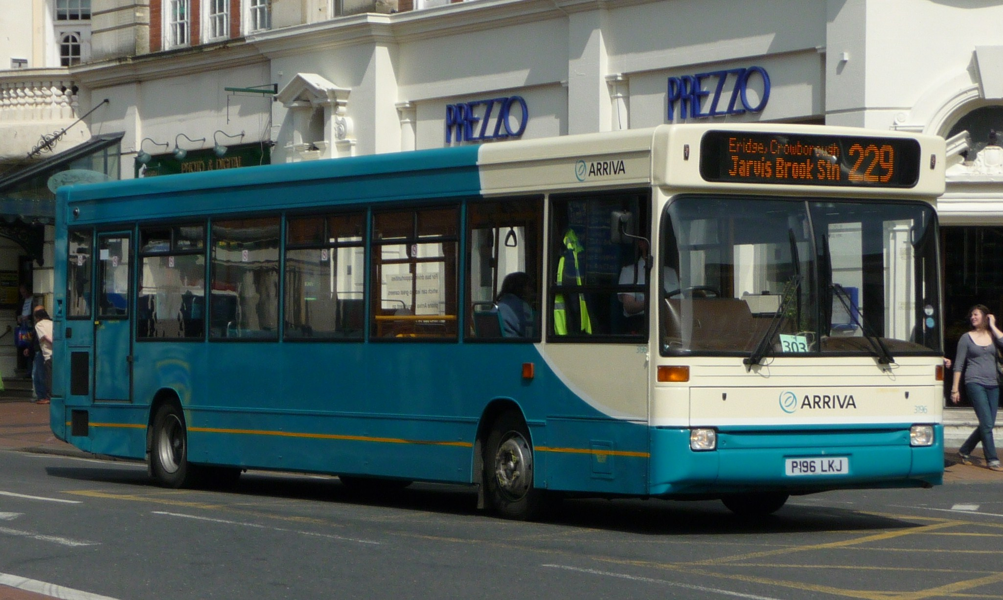 Arriva Kent & Sussex 3196 (P196 LKJ), a Dennis Dart SLF/Plaxton Pointer, in Mount Pleasant Road, Tunbridge Wells, on route 229.